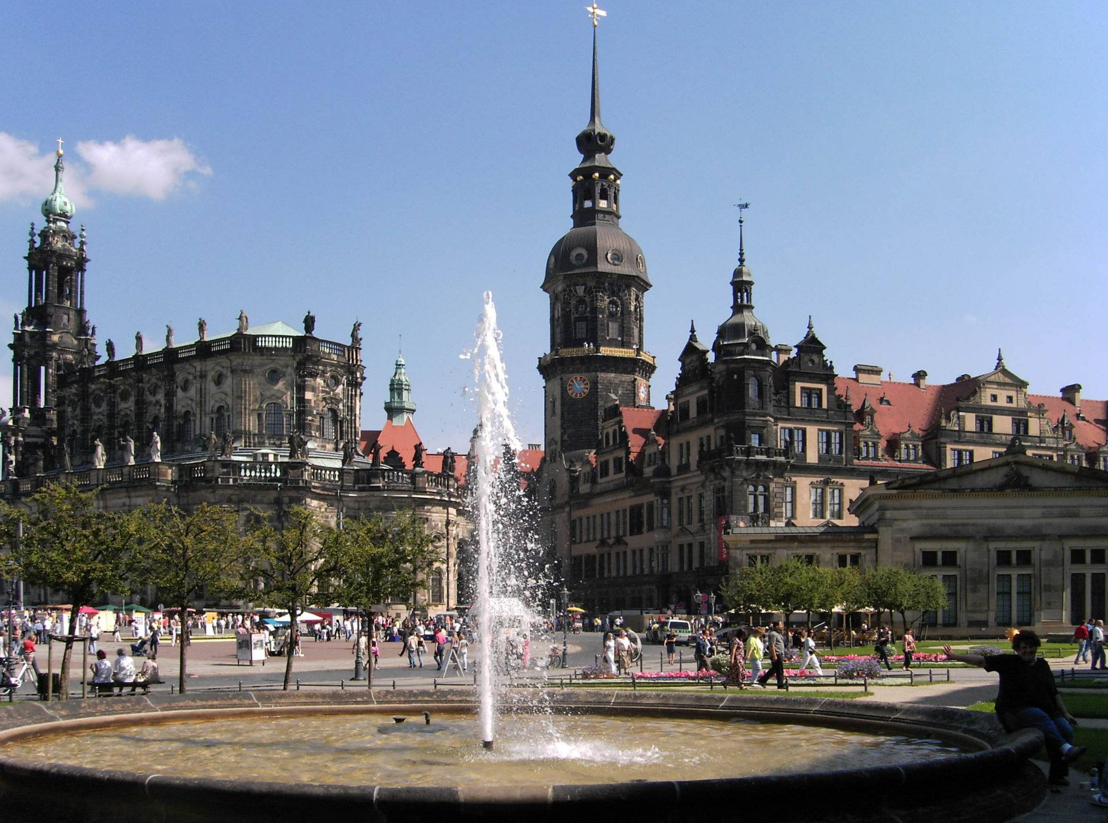 Dresden. Hofkirche (left) and Residenzschloss (right), view from entrance of Zwinger.